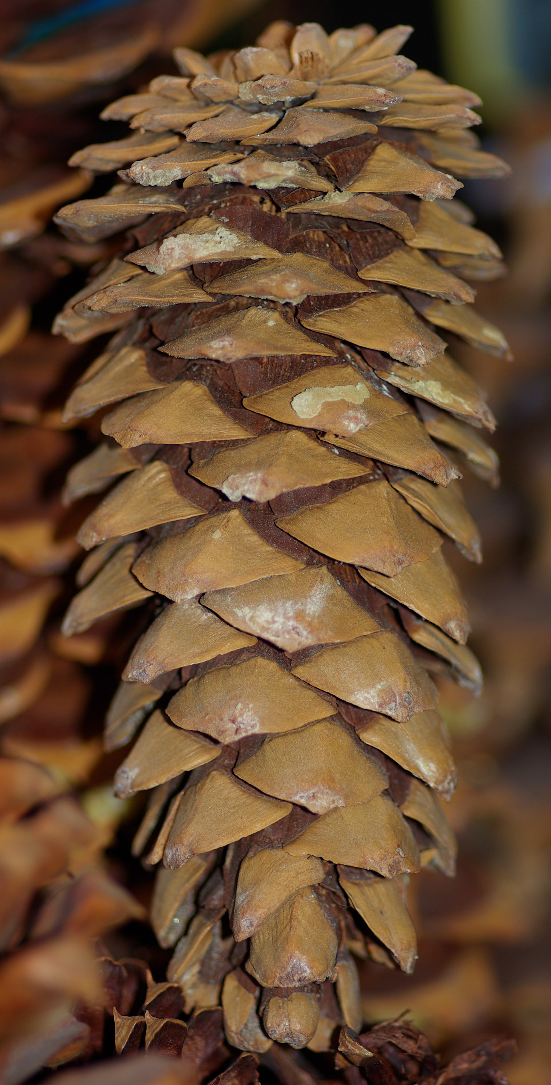 Pinus flexilis — Limber Pine, cone. San Jacinto Mountains, Riverside County, California.